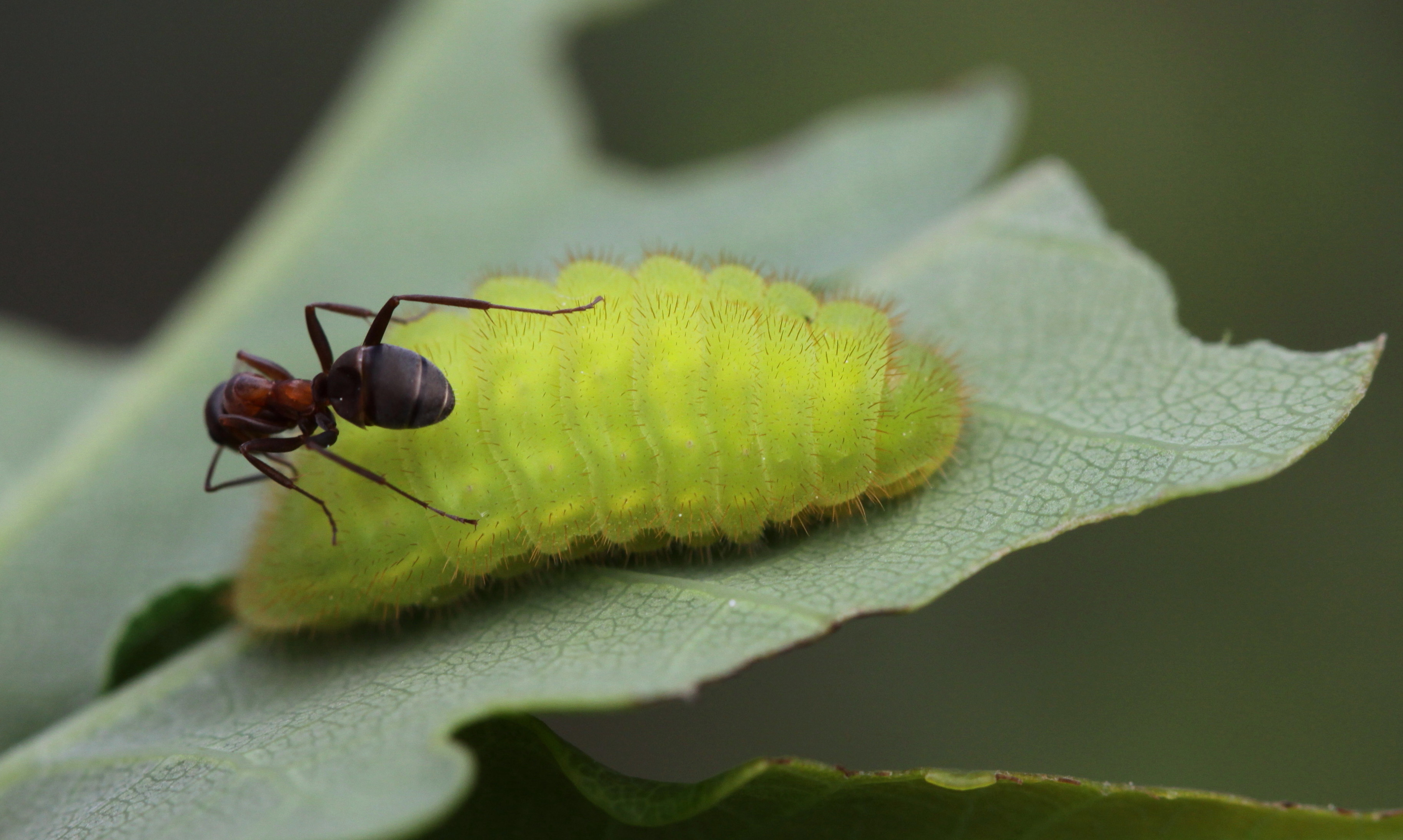 ilex hairstreak ( "Satyrium ilicis" )